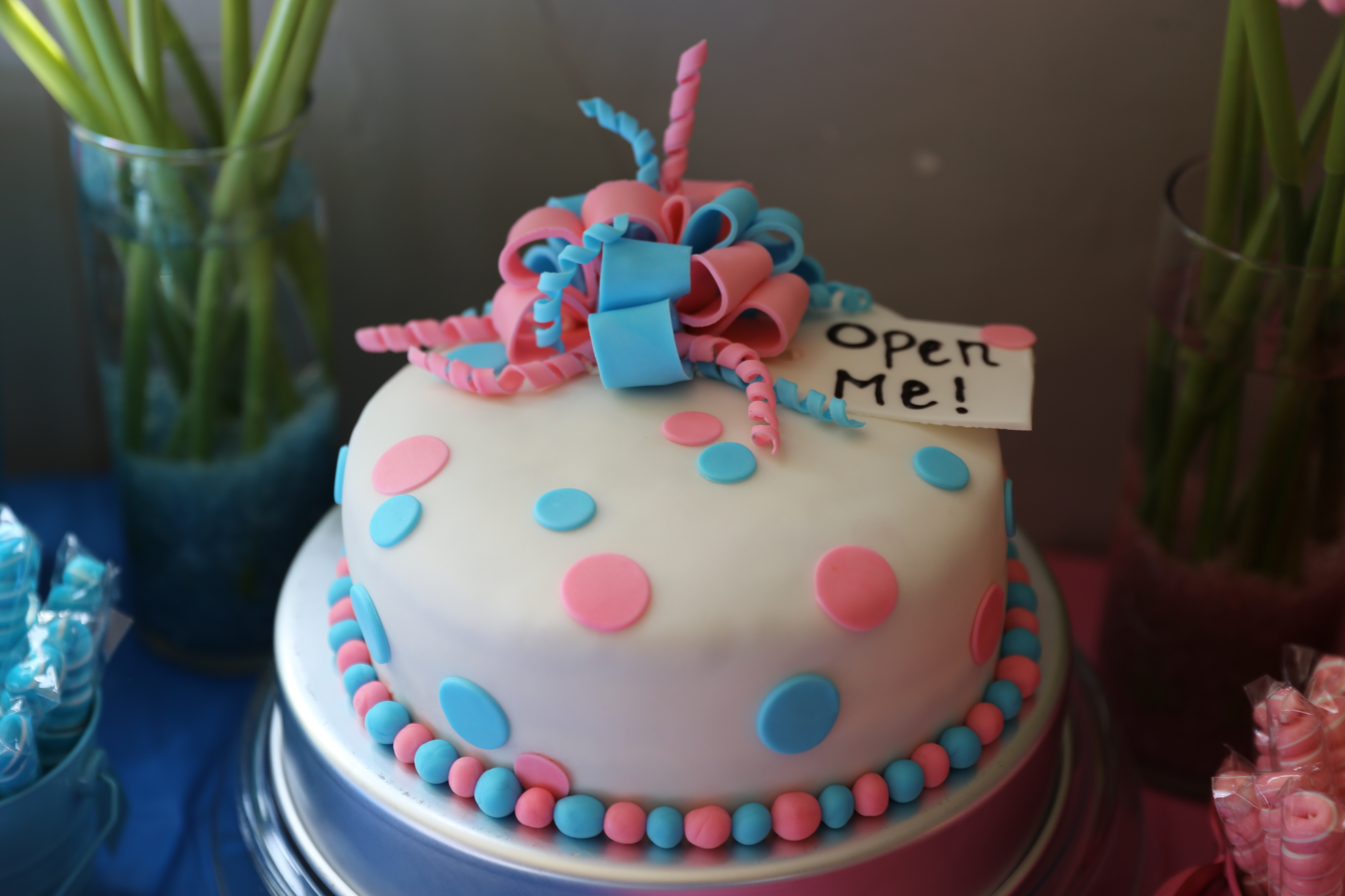 A mostly-white cake decorated with pink and blue. Inside is a layer of colored cake to reveal the fetal sex of the expectant parents.